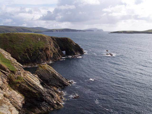 Natural Arch, Point of Stakka, Houss Ness, East Burra, Shetland Looking South between Holm of Maywick and South Havra towards Fitful Head in the far distance.